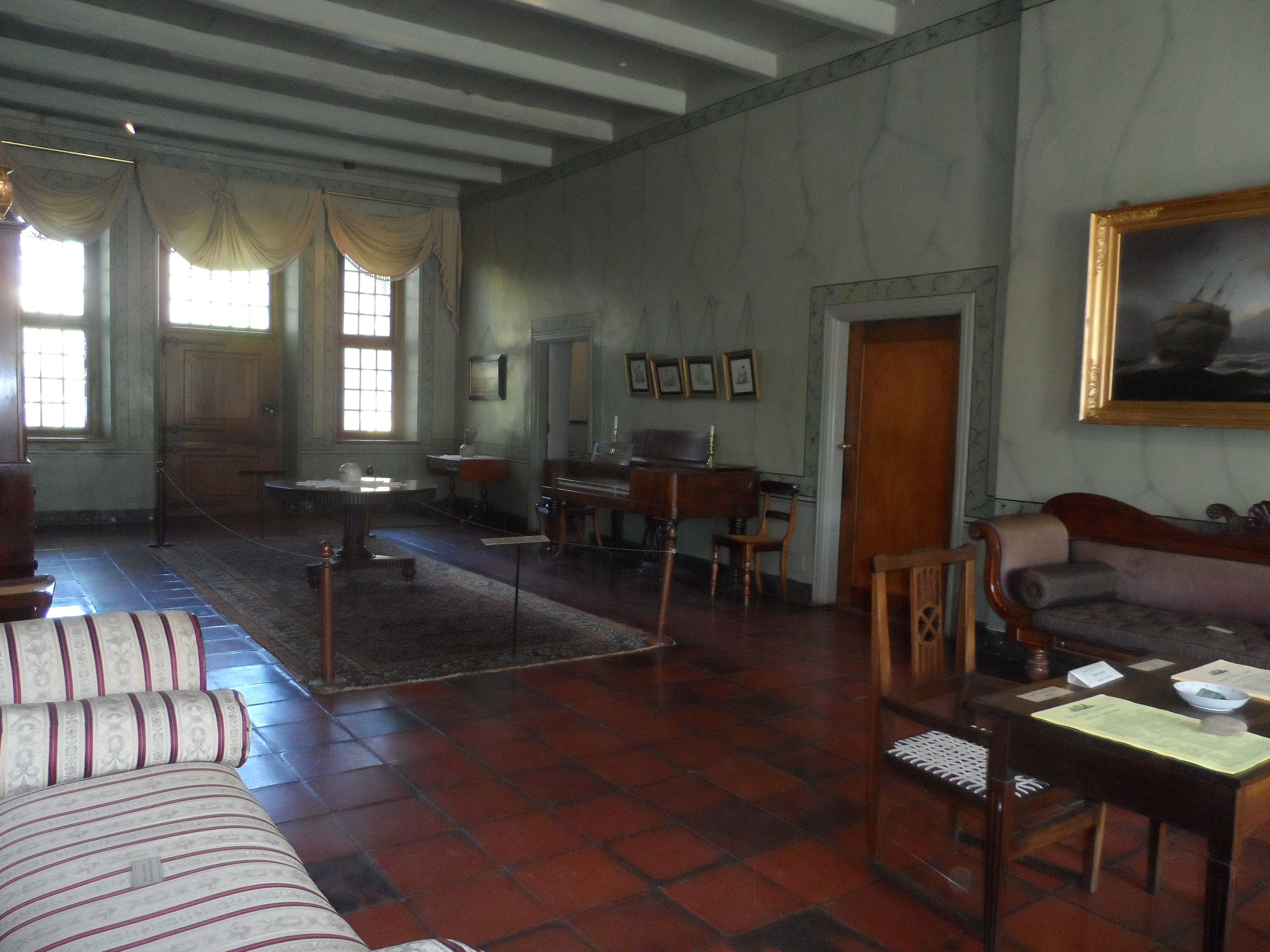 Grosvenor House, Stellenbosch This media shows a South African Protected Site with SAHRA file reference 9/2/084/0051.